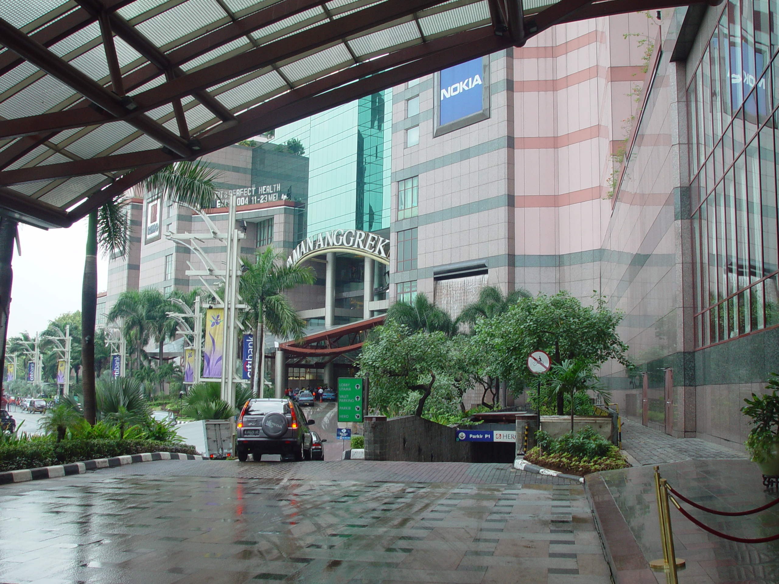 Mall cultural in Jakarta, Indonesia.